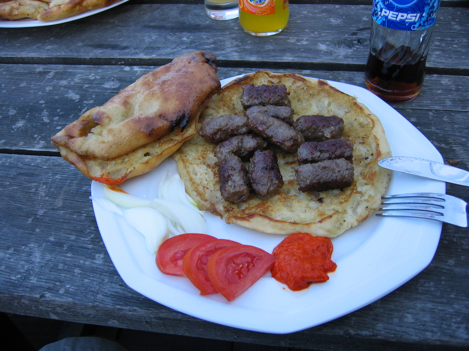 Original Bosnian ćevapčići with ajvar and lepinja (somun) bread.